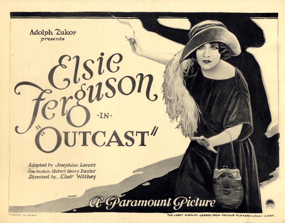 Elsie Ferguson in the American drama film Outcast (1922) - promotional poster